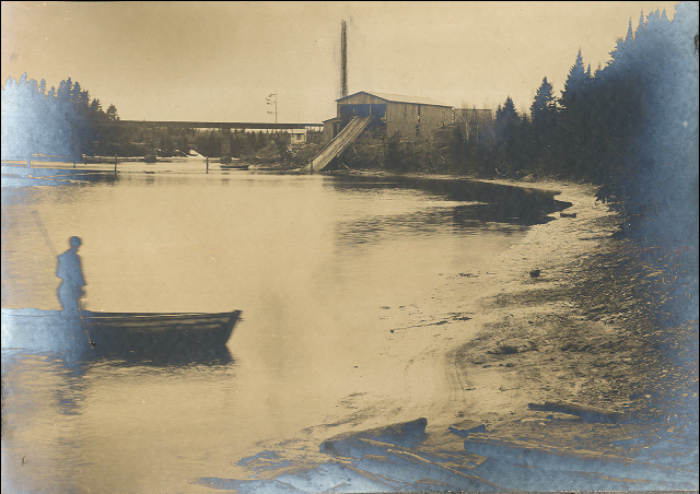 The Smith Sawmill on Scoudouc River, Shediac, NB, circa 1920.